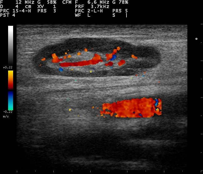 Ultrasound images of lymph nodes